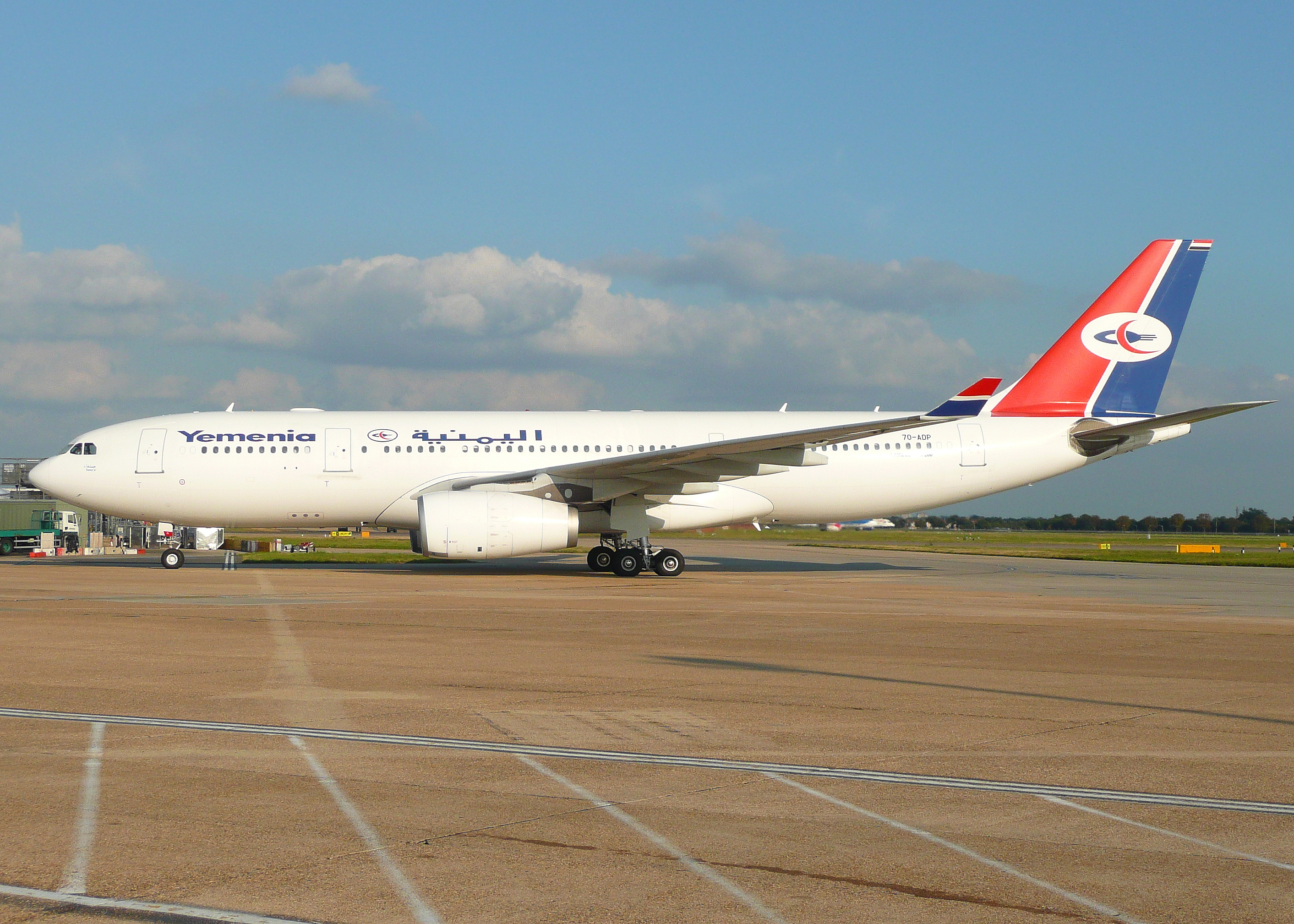 7O-ADP A332 Yemenia pulling on to std 210